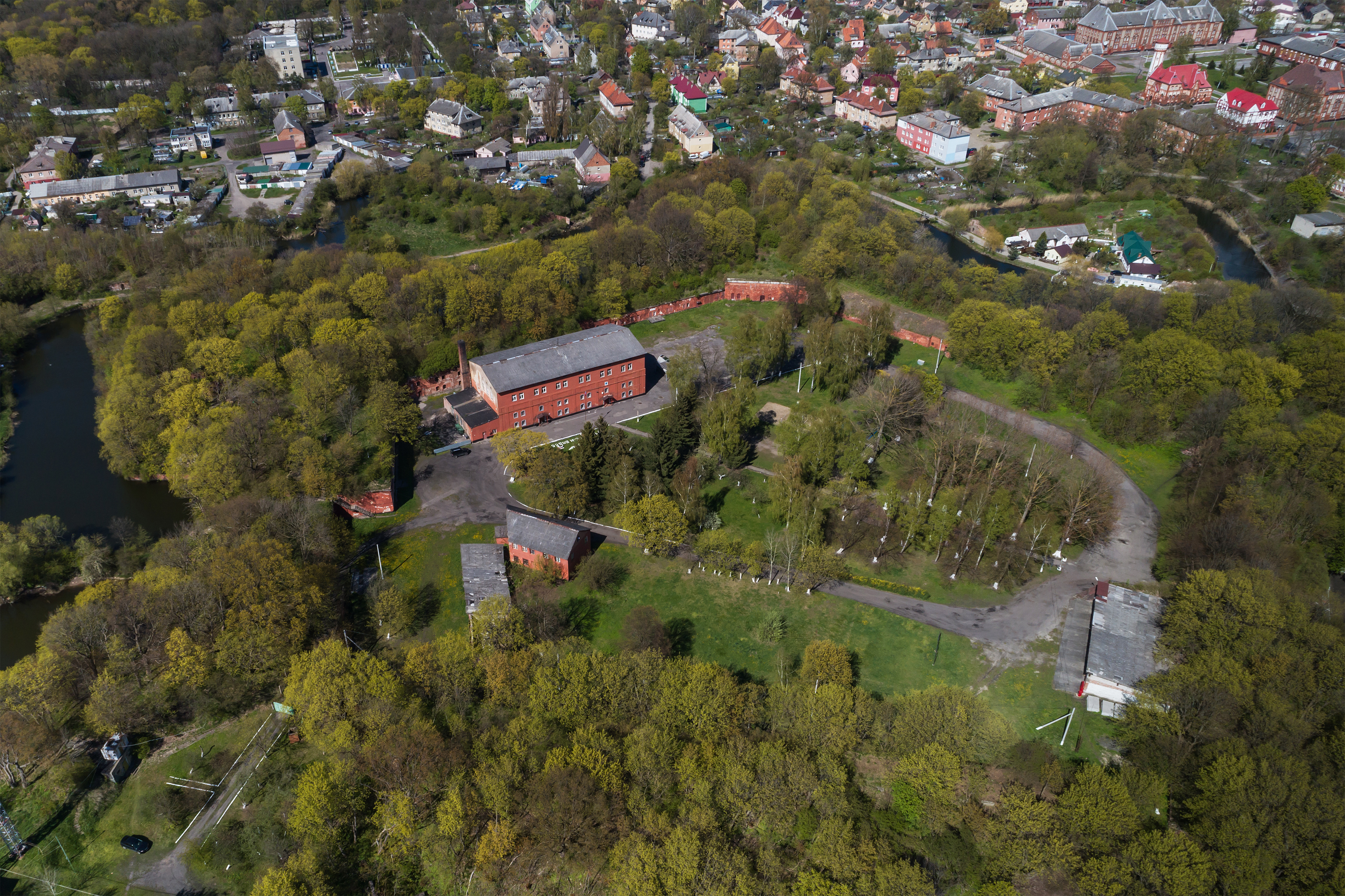 Aerial photo of the citadel of Baltiysk formerly Pillau / Kaliningrad Oblast (Russia).